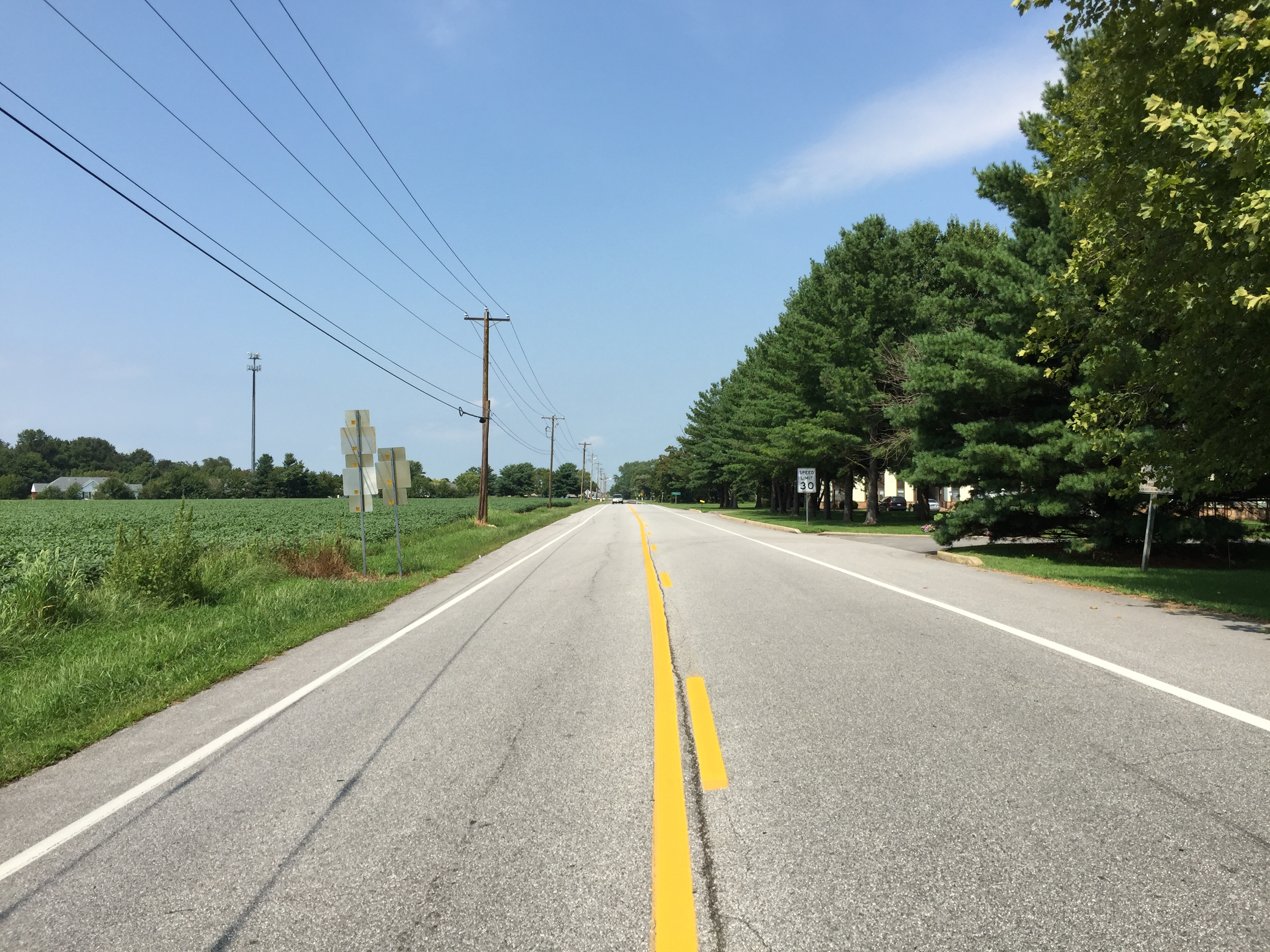 View north along Maryland State Route 776 (Sunset Boulevard) at Maryland State Route 312 and Maryland State Route 480 (Ridgely Road) in Ridgely, Caroline County, Maryland